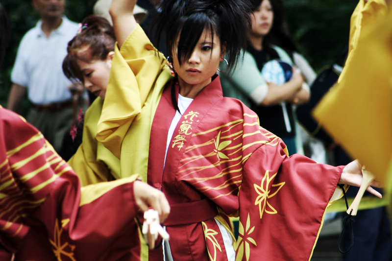 A performer, labeled "Ideha-Gumi" at the 2006 Yosakoi Festival in Harajuku.